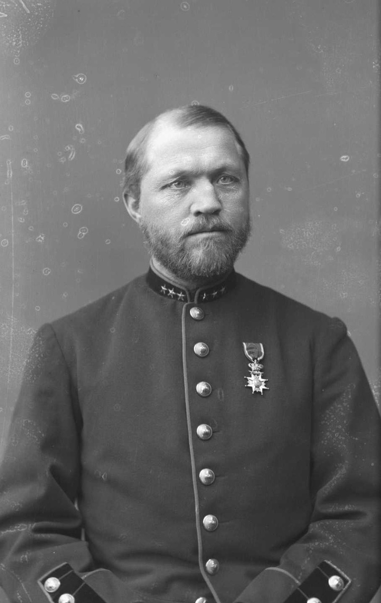 Norwegian officer, farmer and local politician Otto Anton Fougner (1838–1902), photo from 1897. He was mayor of Aker (close to Oslo).